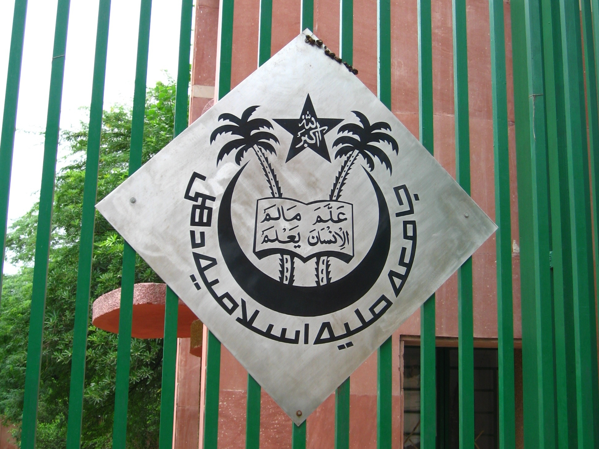 Gates of Jamia Millia Islamia, New Delhi, India.